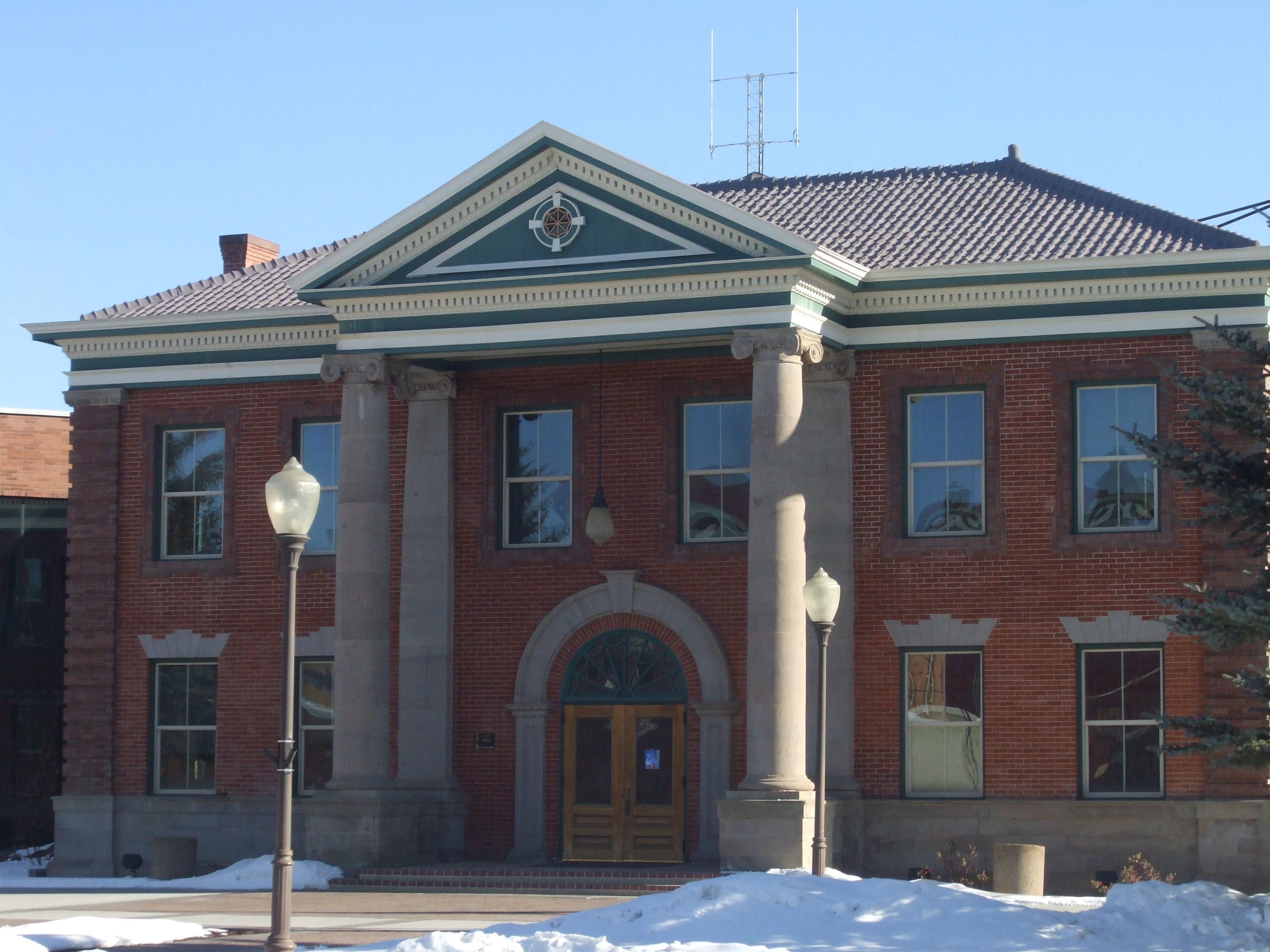 Uinta County Courthouse, started in 1873 in Evanston, Wyoming, United States, is the oldest courthouse in the state of Wyoming.